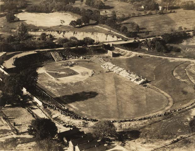 Aerial view of Cramton Bowl in Montgomery, Alabama, during a baseball game.